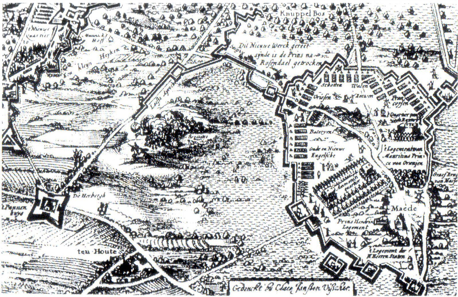 Siege of Breda 1624-1625. On the right the Dutch campement near the town Made. On the left the Spanish siege works.